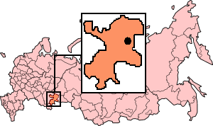 Location of Chelyabinsk city in Russia